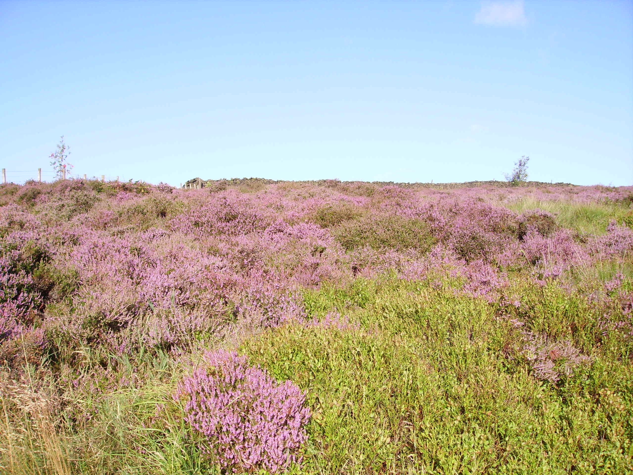 heather in North Yorkshire, United Kingdom